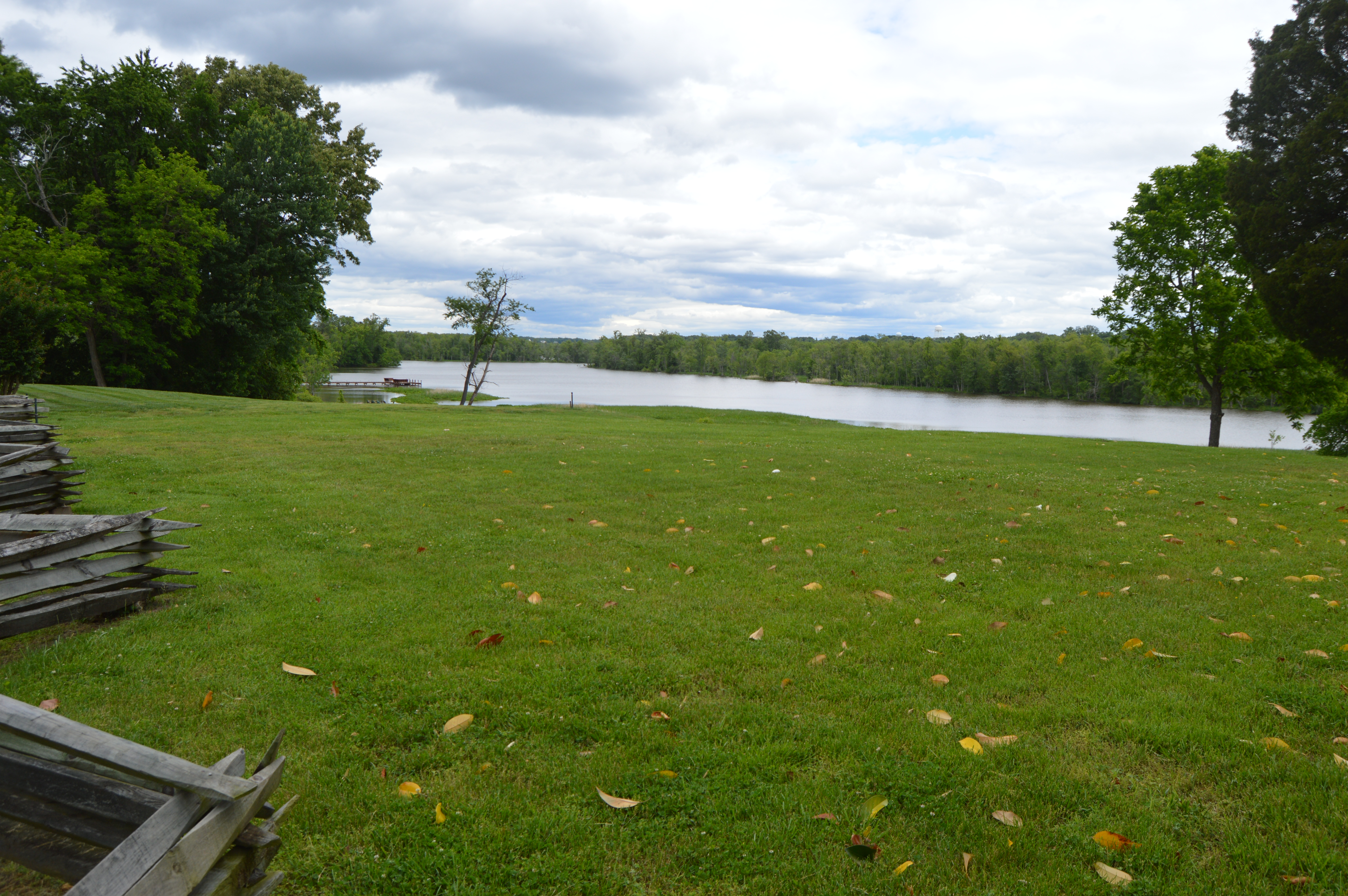 A lawn along the Appomattox River off Waterfront Drive in Colonial Heights, Virginia, United States. Once occupied by an Indian village, this is an archaeological site known as the Conjurer's Field Archeological Site; it is listed on the National Register of Historic Places.